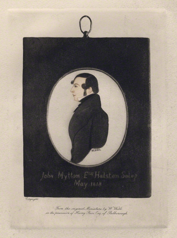 John Mytton, after William Webb, May 1818, photogravure of the original miniature.